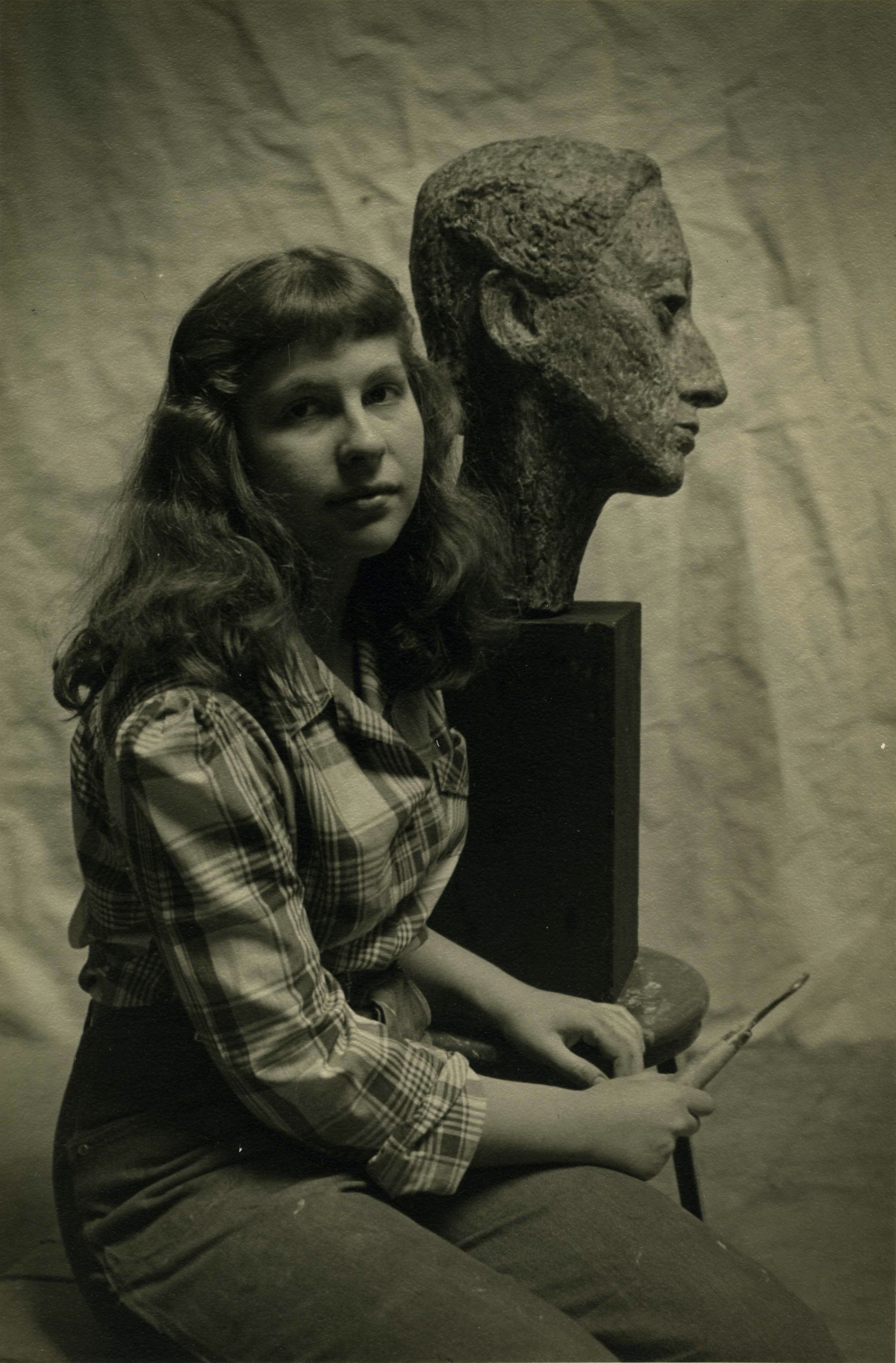 Berta Golahny and her sculpture "Sheba"